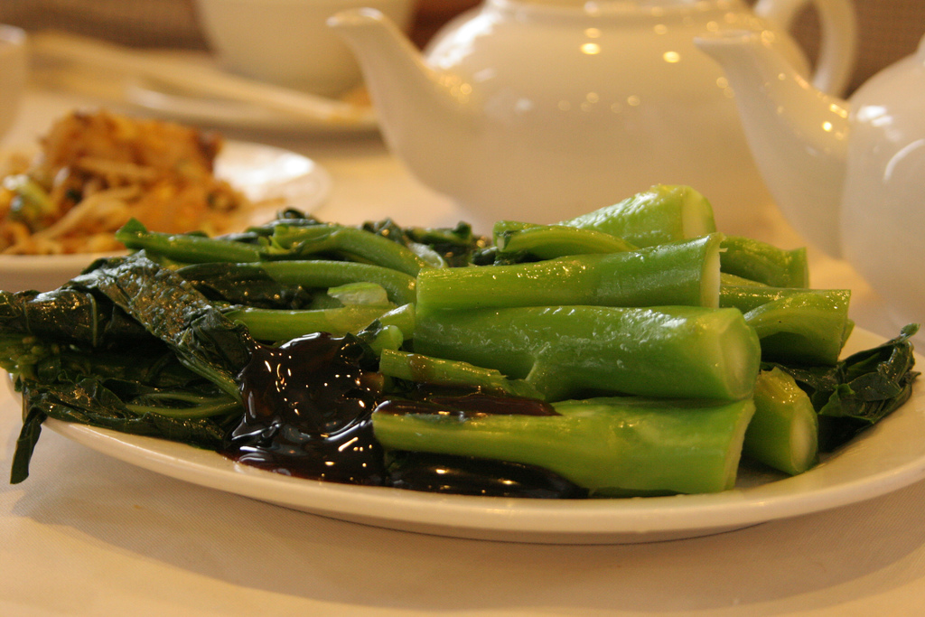 A plate of gailan (芥兰) with oyster sauce.